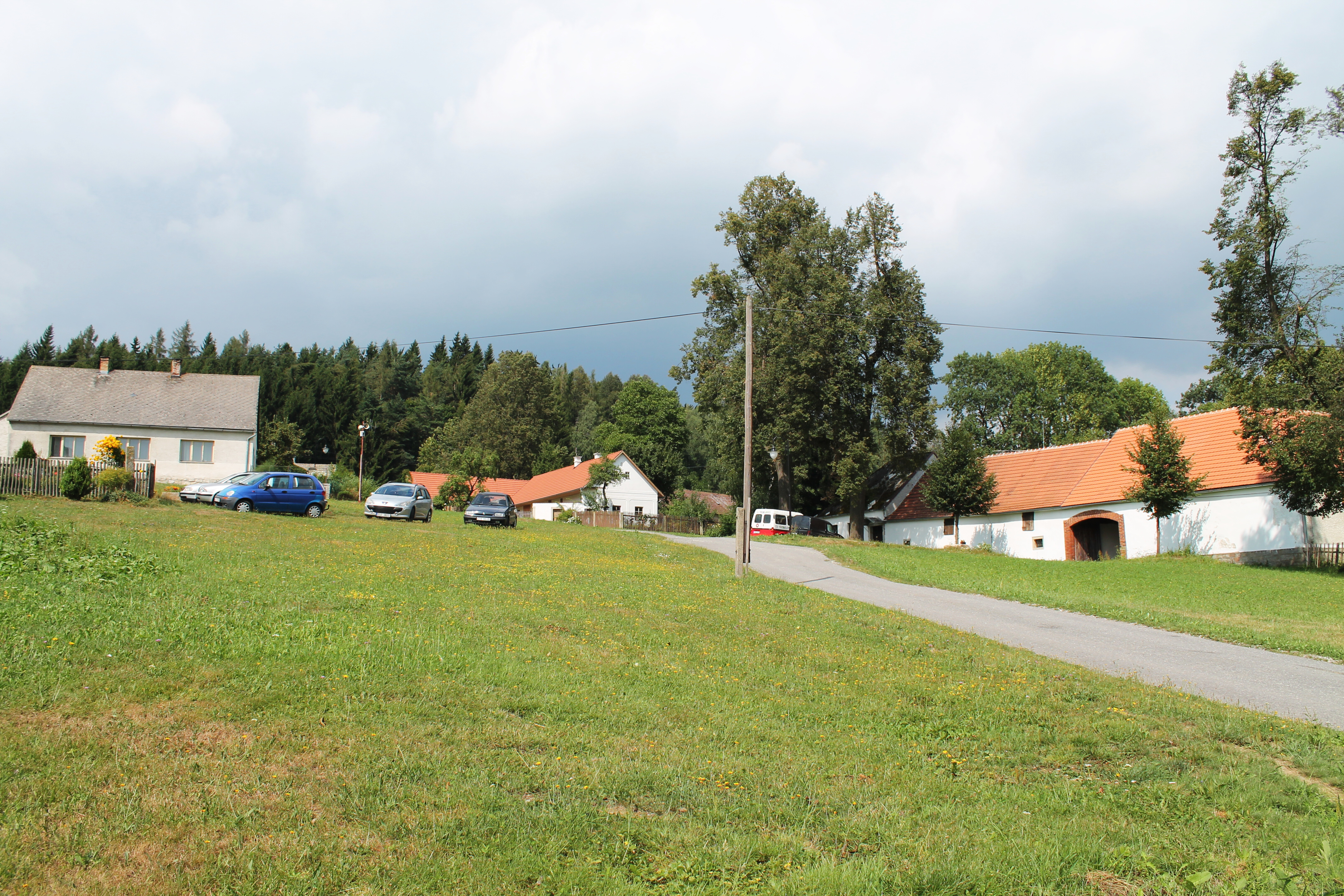 Praskolesy, Mrákotín, Jihlava District, Czech Republic